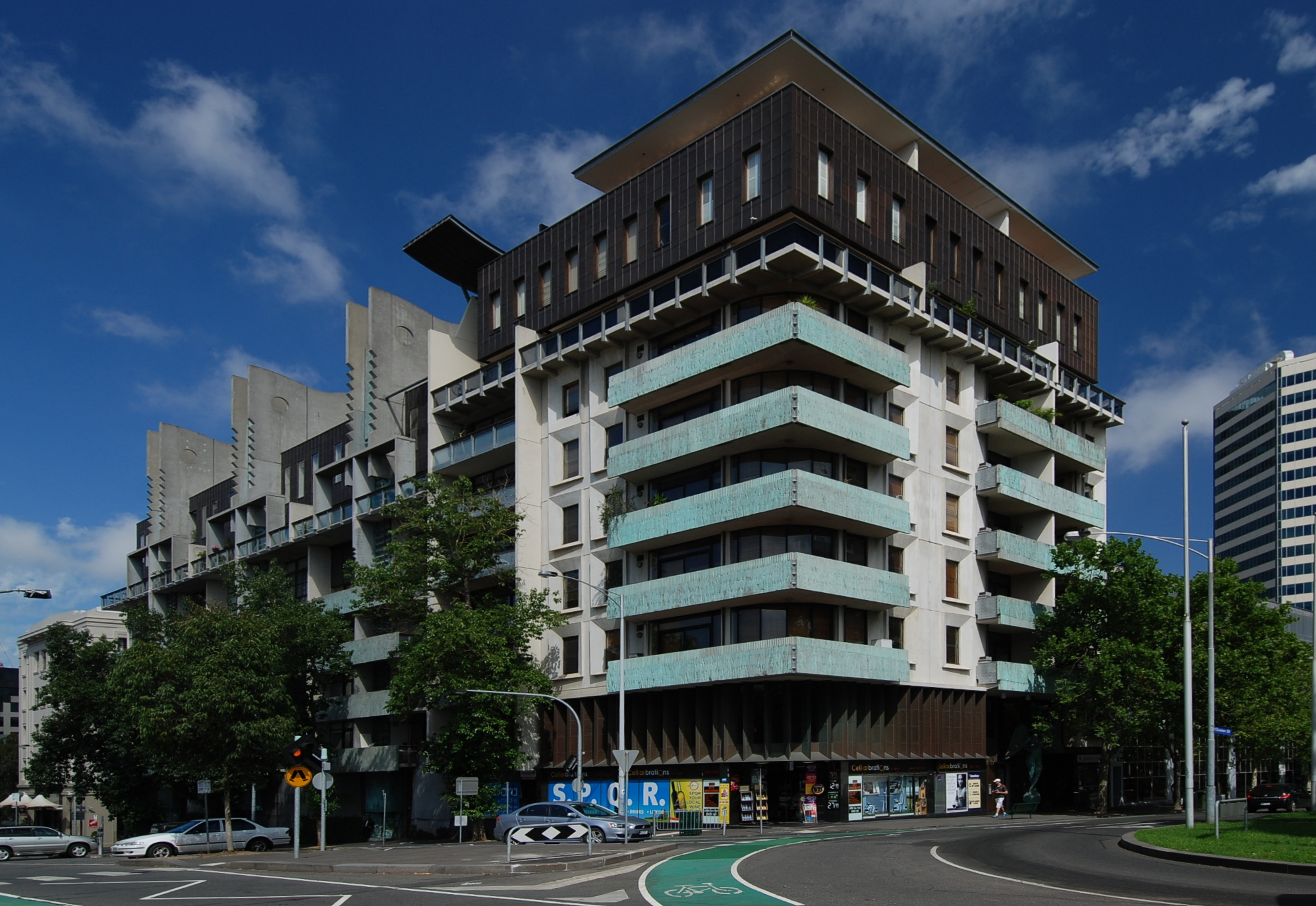 Apartment buildings, corner Queen Street and Franklin Street, Melbourne, Australia. Design by Fender Katsalidis Architects 1994.